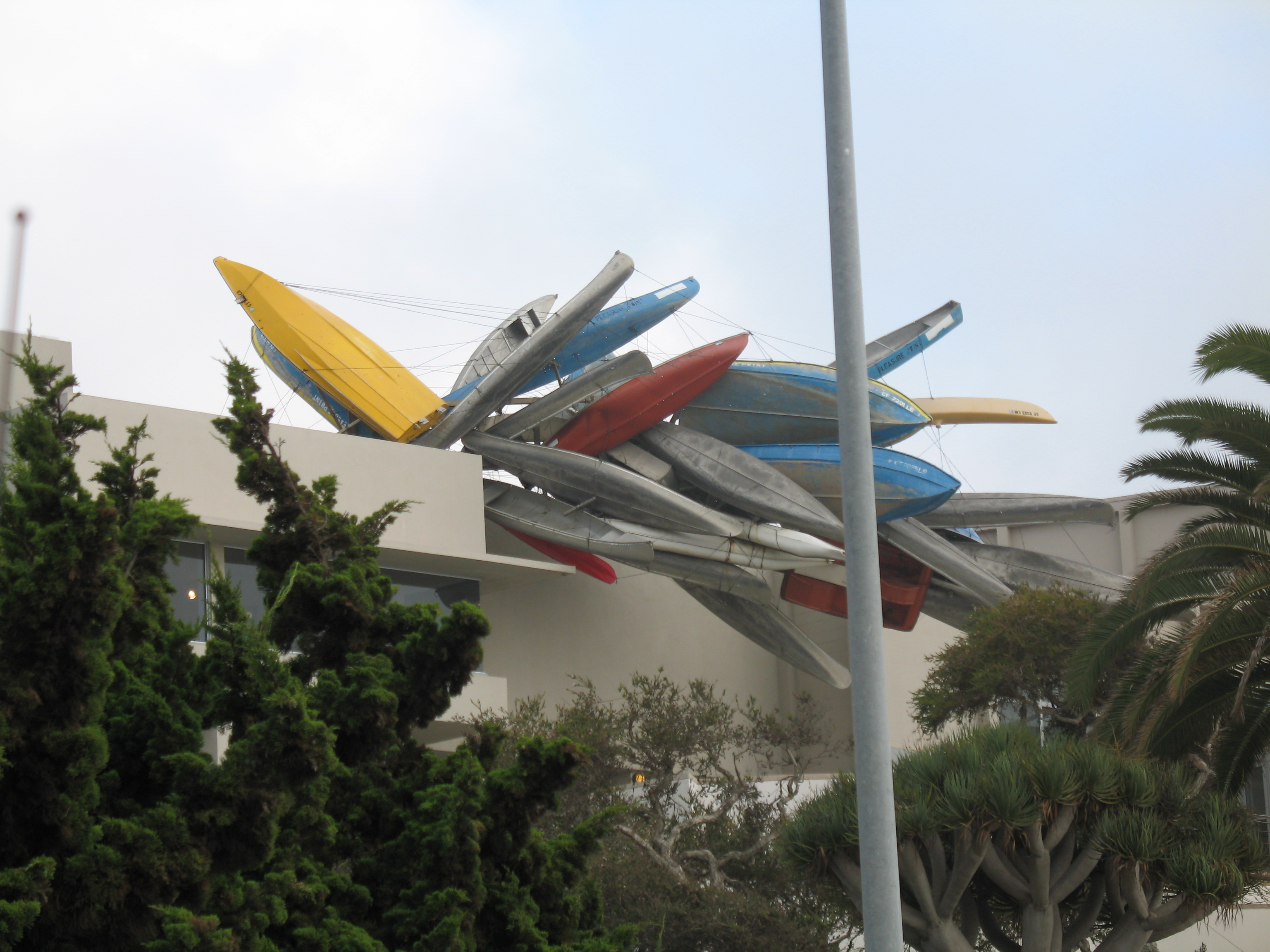 A large installation by American sculptor Nancy Rubins. The piece, called "Pleasure Point", was displayed projecting out from the museum roof at the Museum of Contemporary Art San Diego, in La Jolla, in 2007. Photographed from the road.